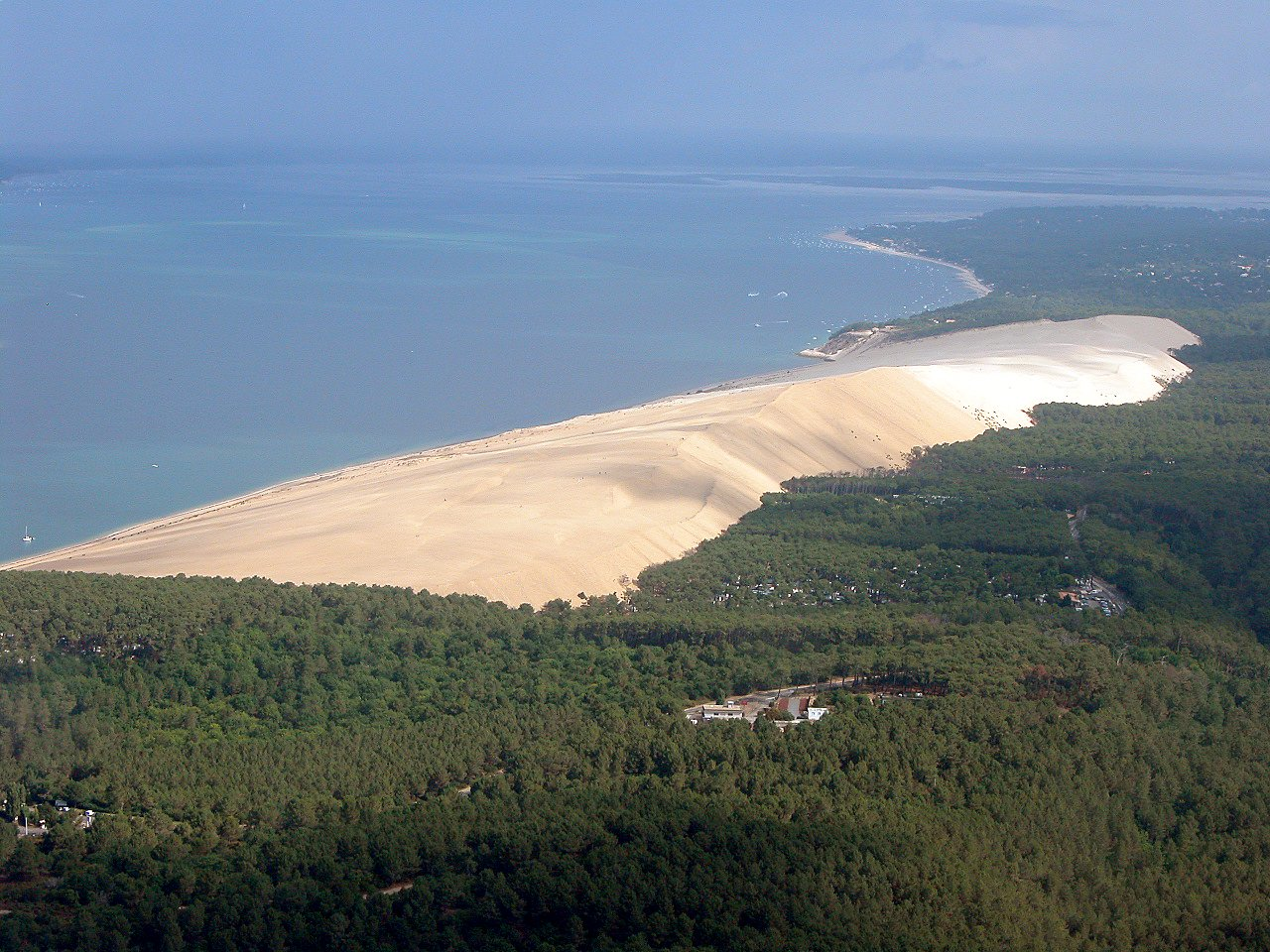 The Great Dune of Pyla, Landes, France. It is the tallest sand dune in Europe.